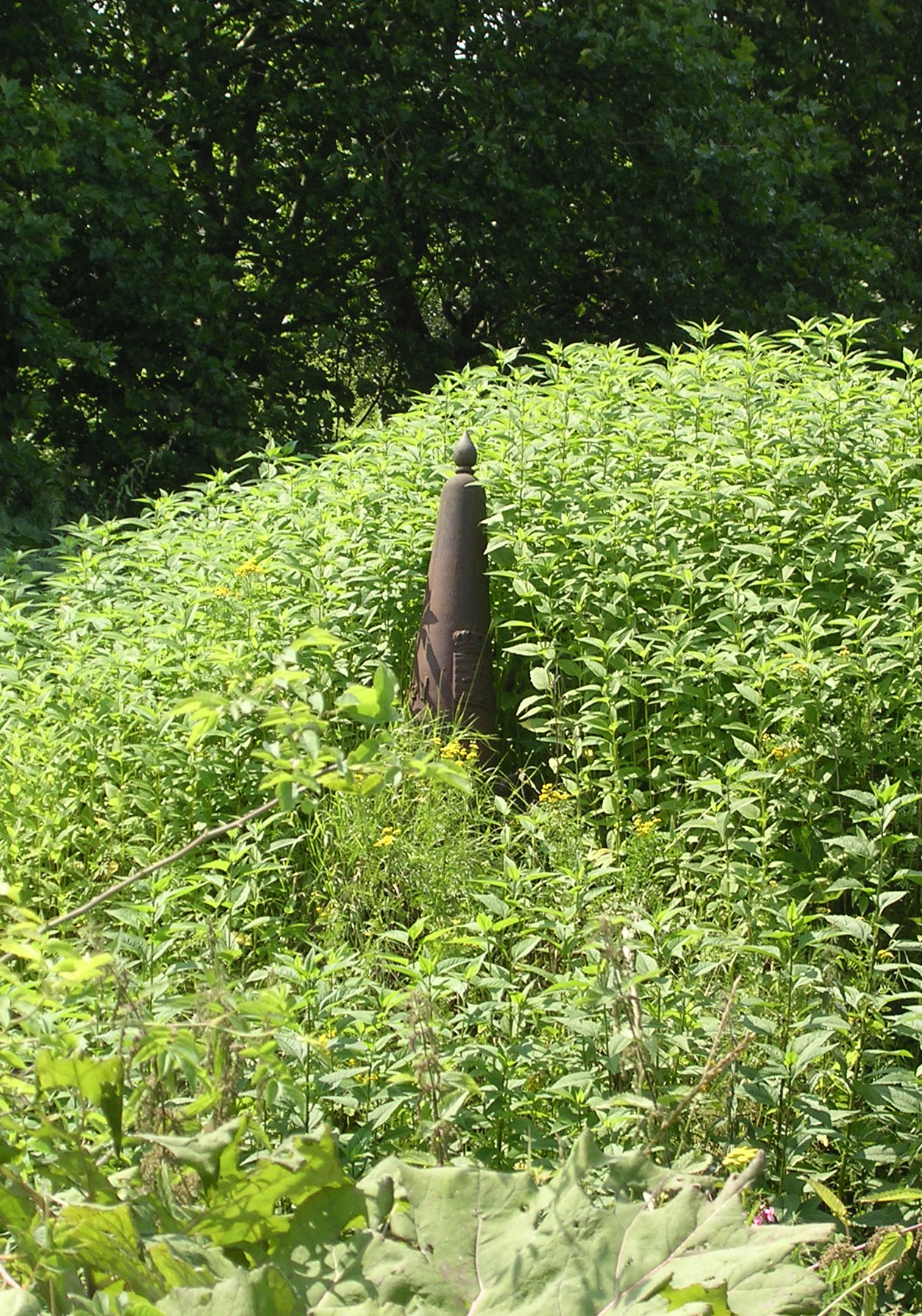 Border marker at the tripoint Belgium-France-Luxembourg in Rodange.